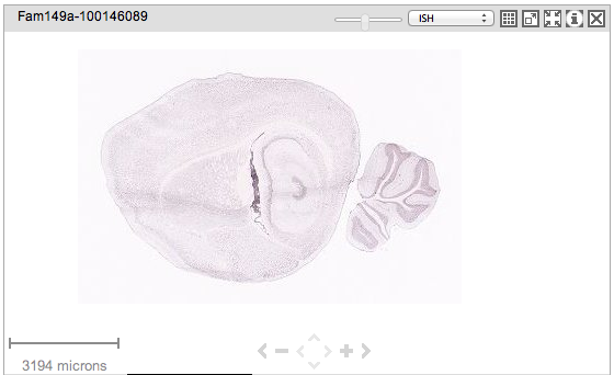 FAM149A protein expression in mouse brain.